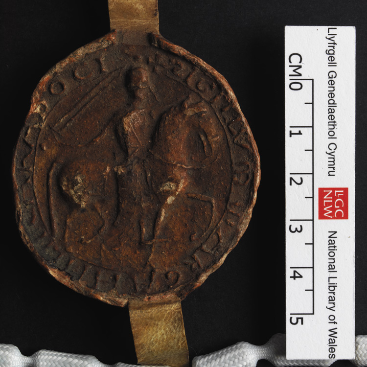 Dyddiad / Date : 1189x1208 Disgrifiad/Description : Morgan ap Caradog (d.c.1208), lord of. Afan Armoured man holding a sword up in his right hand and a shield on his left arm on a horse walking to the right Rhif ffeil delwedd / Image file no. : sea00108 Rhagor o wybodaeth am brosiect Seliau yng Nghymru'r Oesoedd Canol More information about the Seals in Medieval Wales project